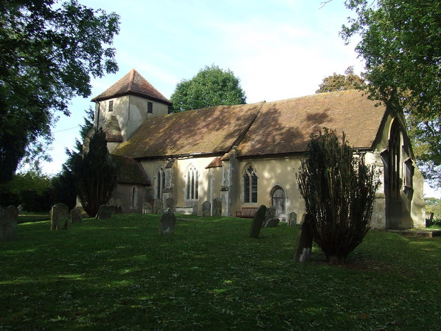 St Margaret's parish church, Whatfield, Suffolk, seen from the southeast